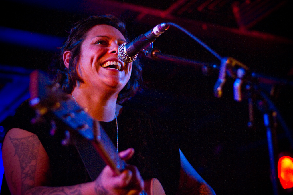 Anika Moa on the tour of her Love in Motion tour in Wellington, 3 June 2010